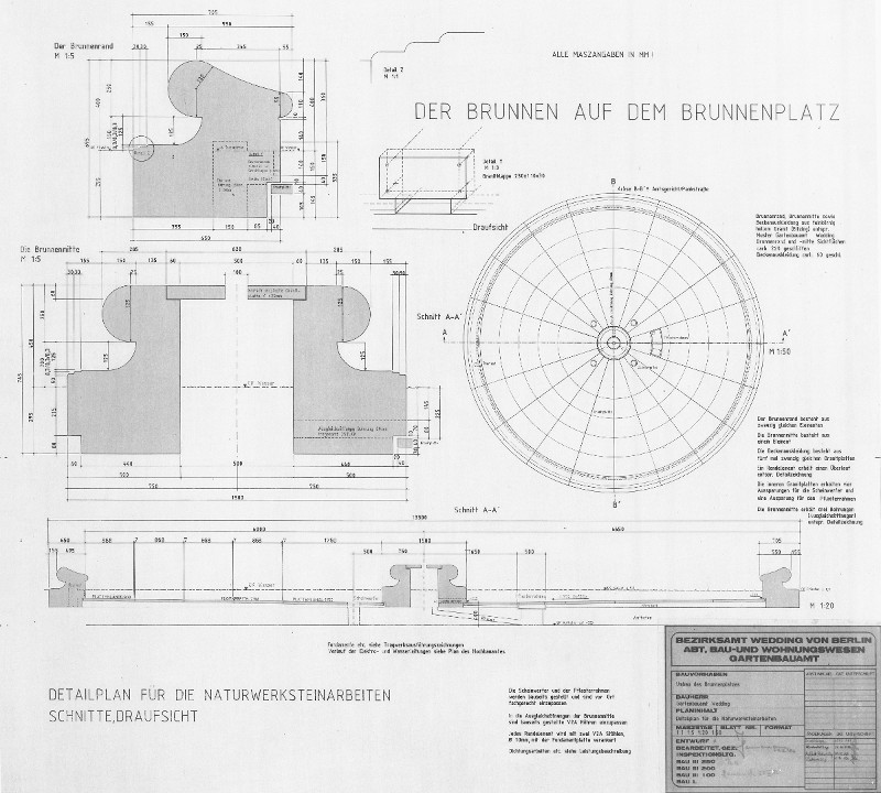 Construction details of the fountain.